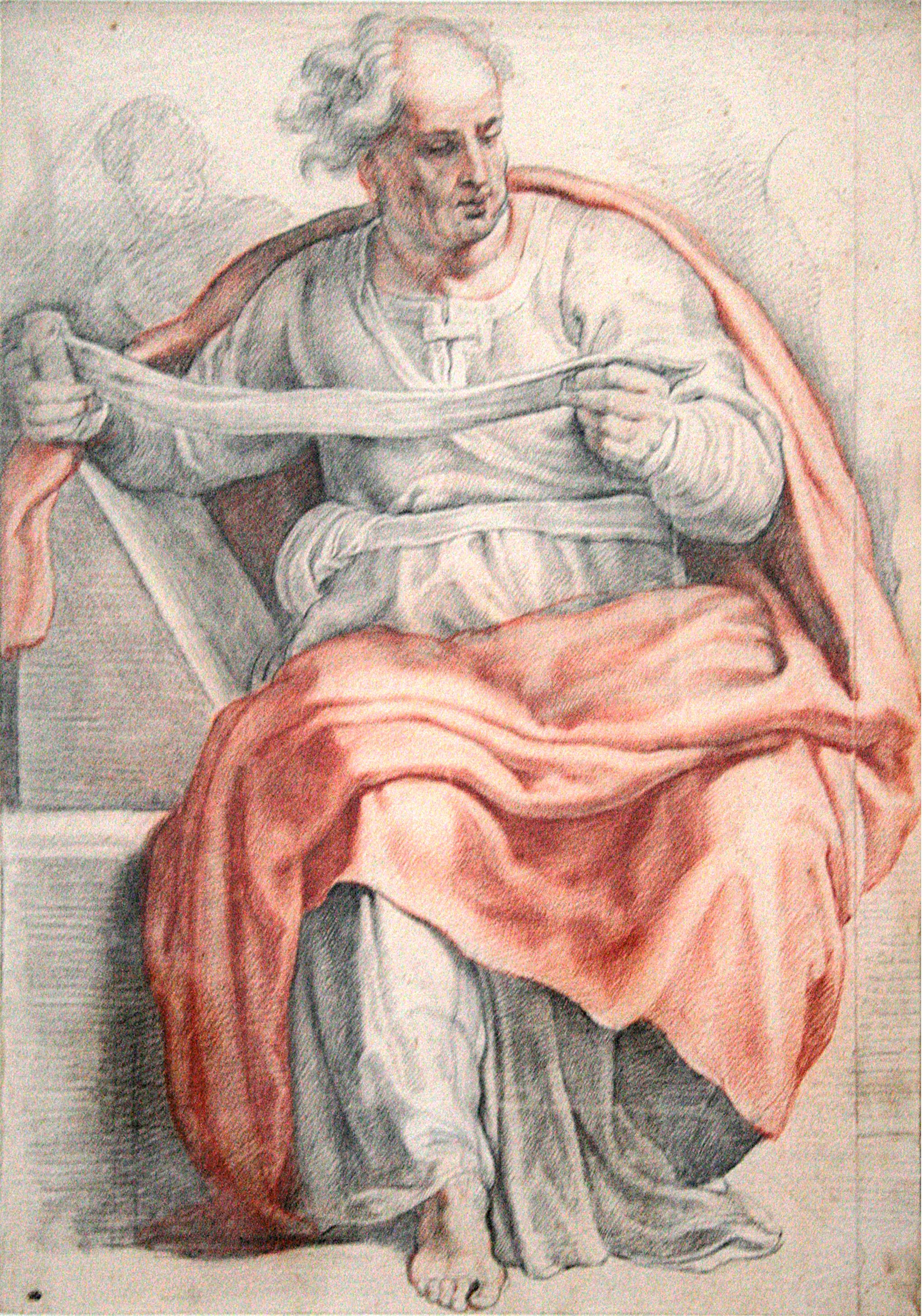 The Prophet Joellabel QS:Lde,"der Prophet Joel"label QS:Len,"The Prophet Joel"label QS:Lfr,"Le Prophète Joël"